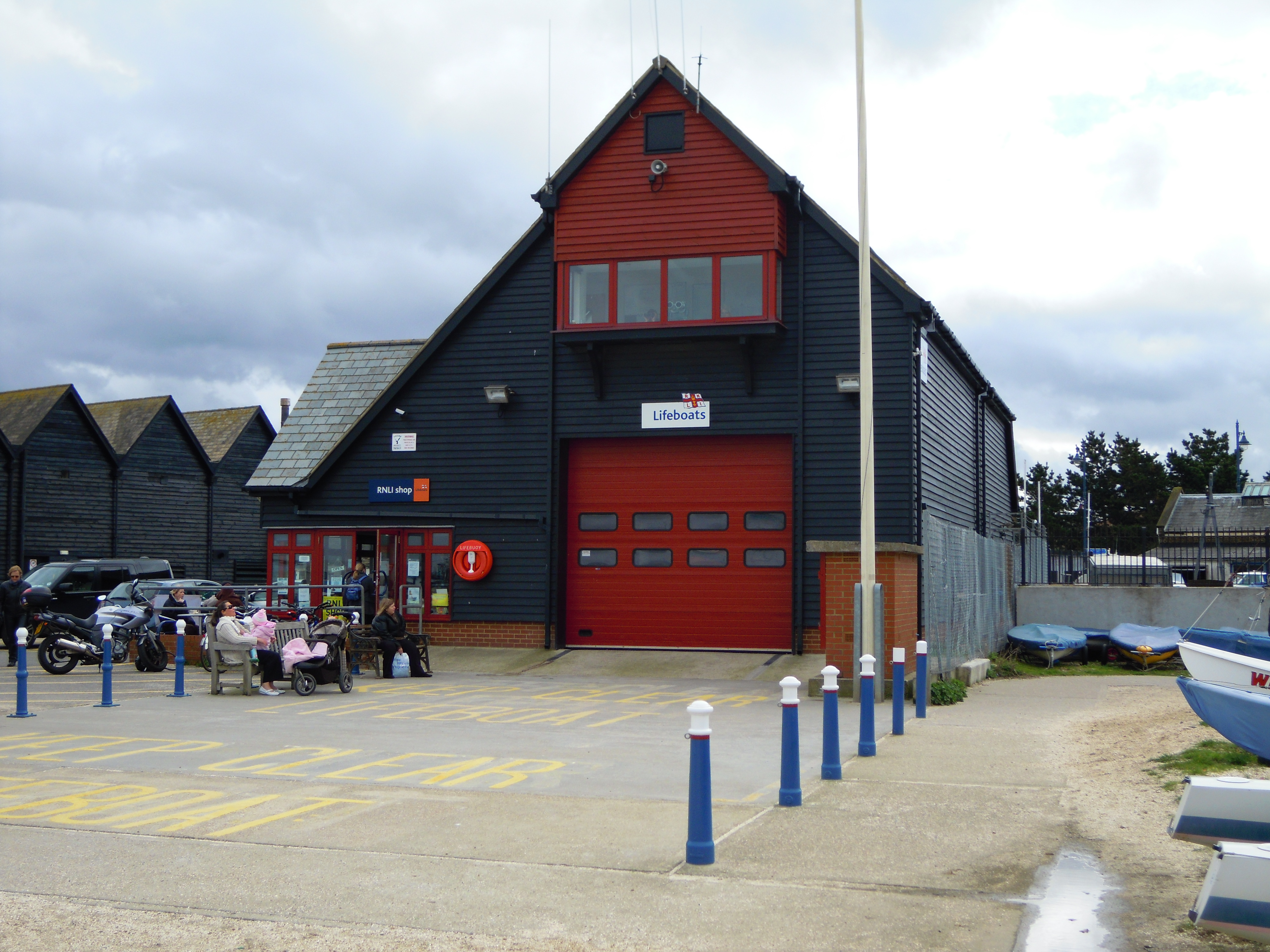 Photograph of the Whitstable Lifeboat Station